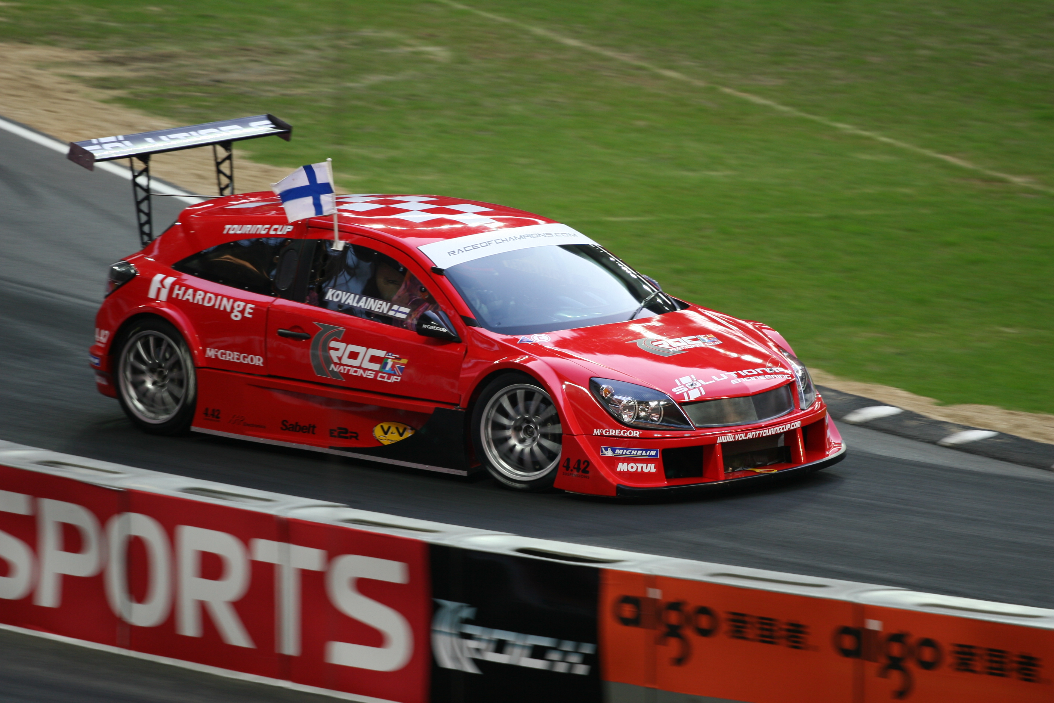 Heikki Kovalainen driving a Solution F at the 2007 Race of Champions at Wembley Stadium.